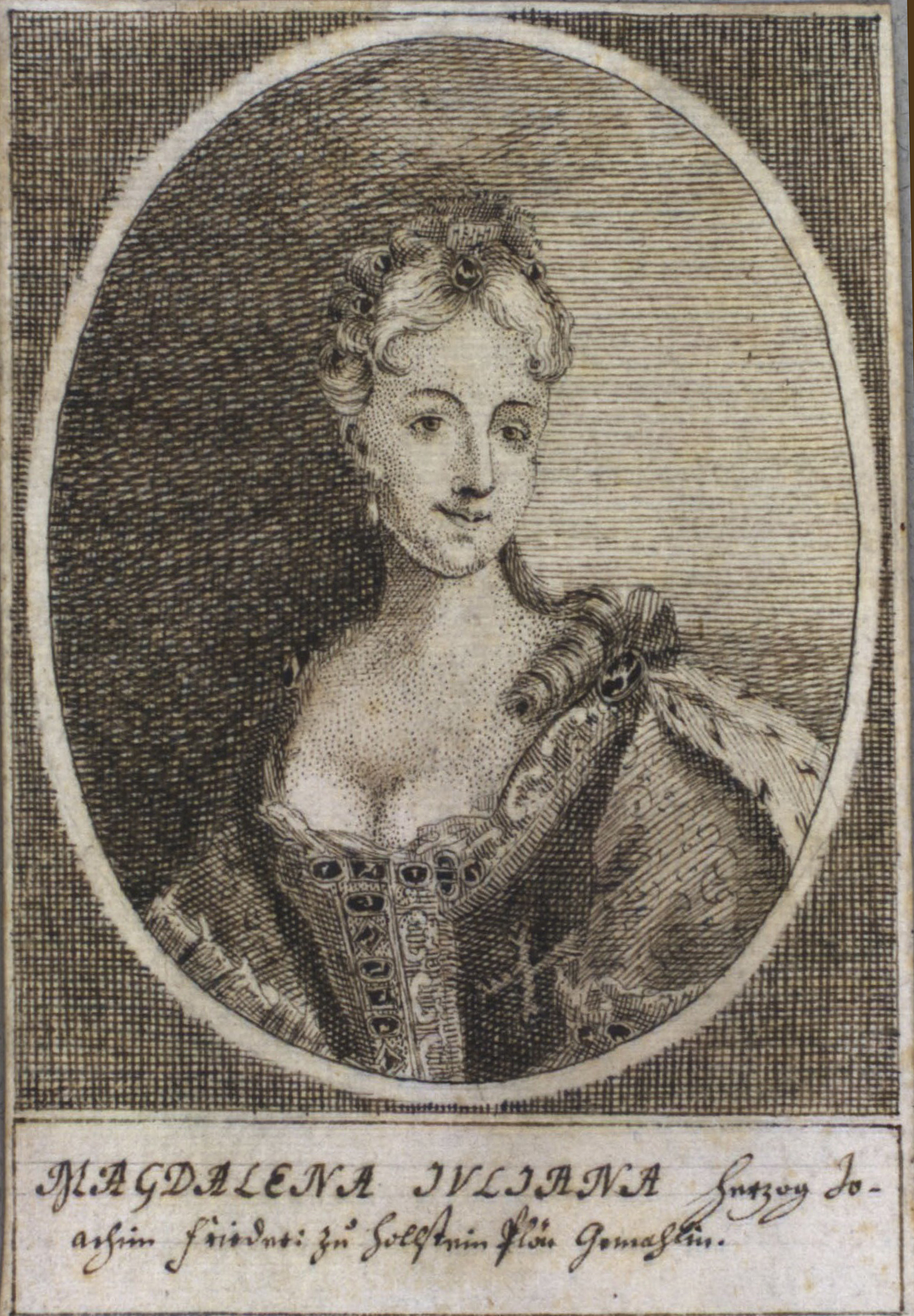 Portrait of Magdalene Juliana of Zweibrücken-Birkenfeld (1686-1720), daughter of John Charles, Count Palatine of Gelnhausen and wife of Joachim Frederick, Duke of Schleswig-Holstein-Sonderburg-Plön